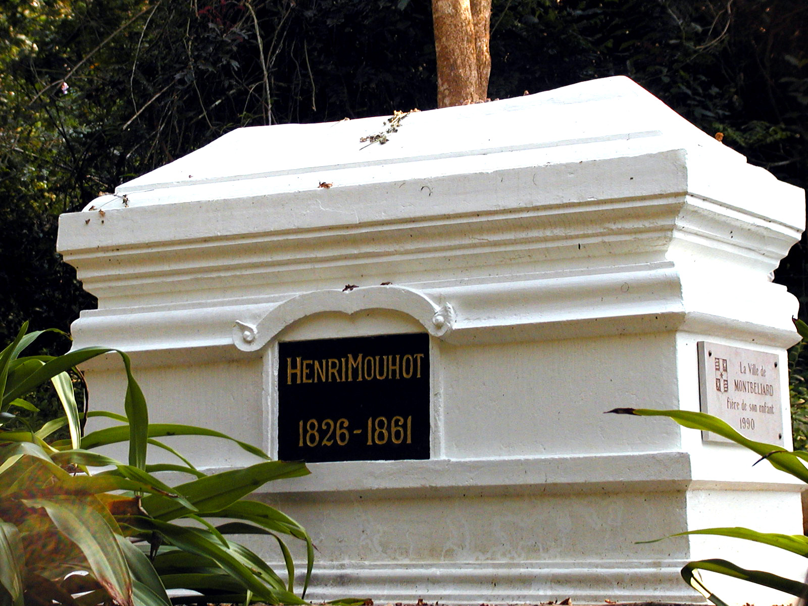 Grave of Henri Mouhot at the banks of the Nam Khan river near Luang Prabang, erected in 1867.